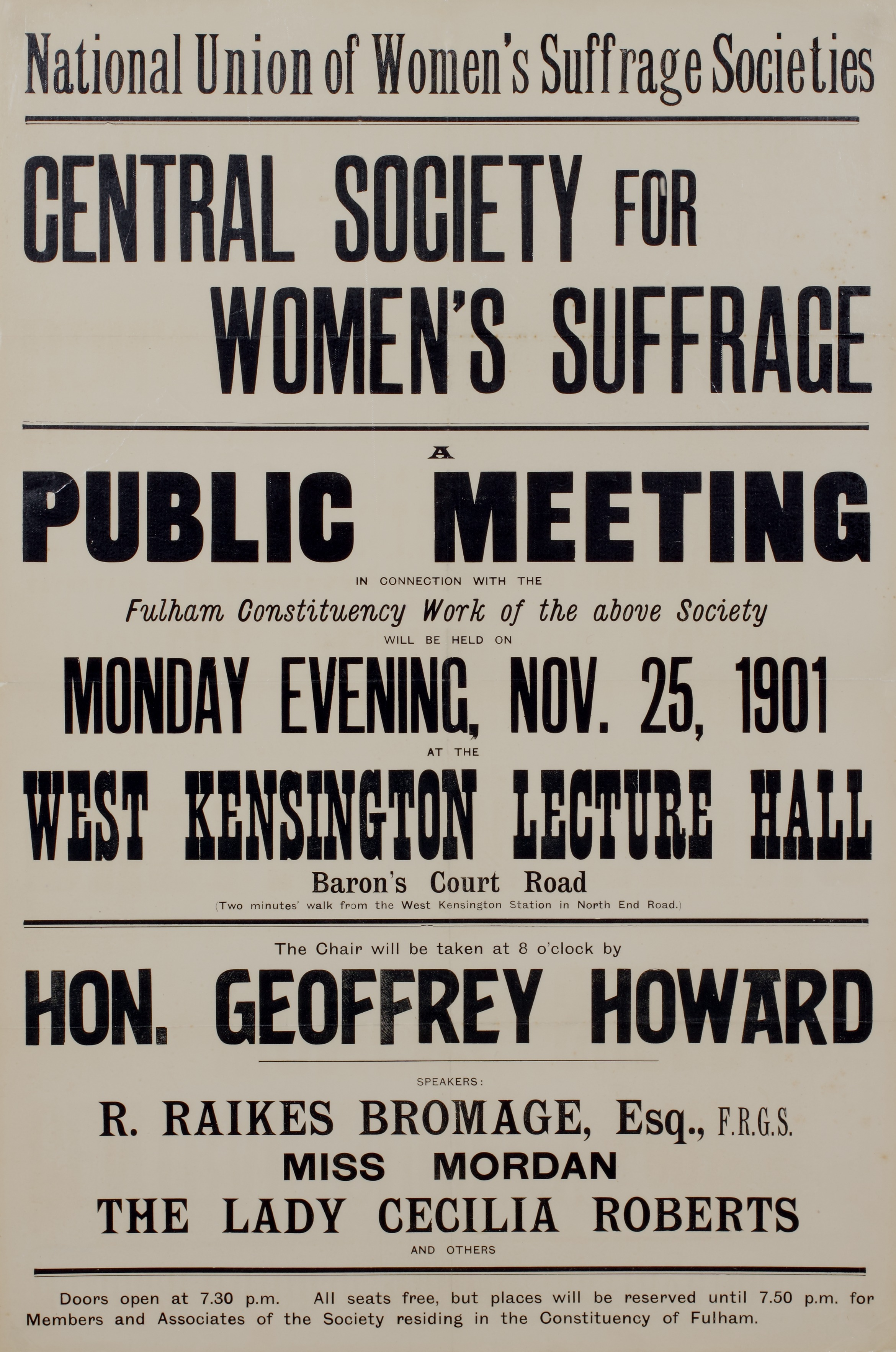 TWL.1999.28Poster, printed, paper, National Union of Women's Suffrage Societies (NUWSS) poster advertising a meeting at West Kensington Lecture Hall, black printed inscription: 'National Union of Women's Suffrage Societies CENTRAL SOCIETY FOR WOMEN'S SUFFRAGE A PUBLIC MEETING IN CONNECTION WITH THE Fulham Constituency Work of the above Society WILL BE HELD ON MONDAY EVENING, 25 NOV 1901 AT THE WEST KENSINGTON LECTURE HALL Baron's Court Road (Two minutes walk from the West Kensington Station in North End Road.) The Chair will be taken at 8 o'clock by HON. GEOFFREY HOWARD SPEAKERS: R RAINES BROMAGE, Esq., FRGS MISS MORDAN THE LADY CECILIA ROBERTS AND OTHERS Doors open at 7.30 p.m. All seats free, but places will be reserved until 7.50 p.mp for Members and Associates of the Society residing in the Constituency of Fulham', cream ground, laminated.